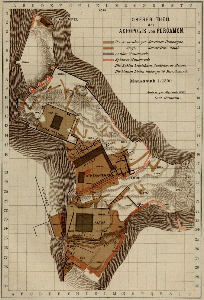 Map of Pergamon Acropolis (1882), from Die Ergebnisse der Ausgrabung zu Pergamon 1880-1881, University of Heidelberg.